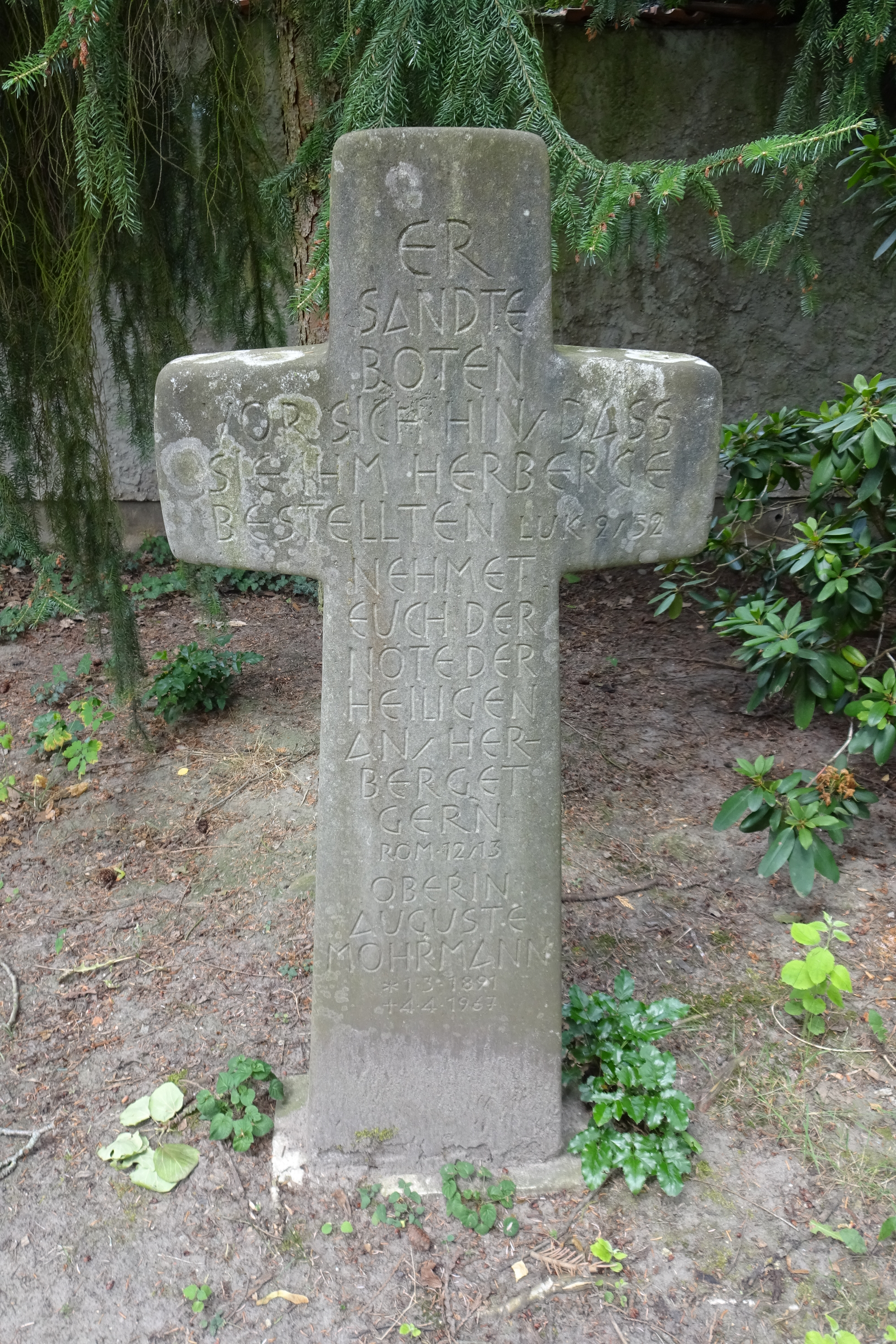 Grave of Mother Superior Auguste Mohrmann in Friedhof Lichtenrade, Berlin-Lichtenrade